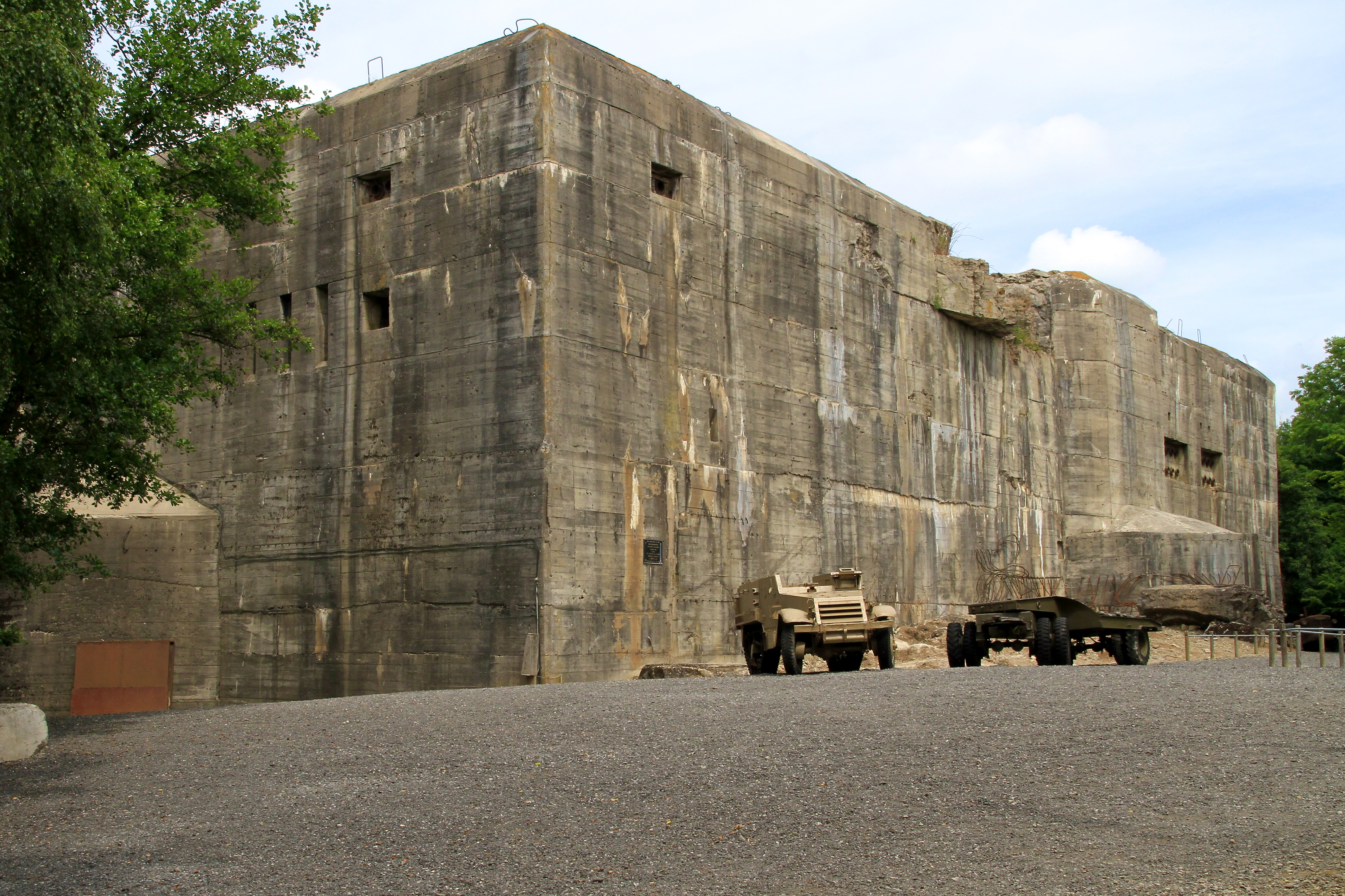 Blockhaus d'Éperlecques - World War II V2 Rocket Assembly and Firing Facility